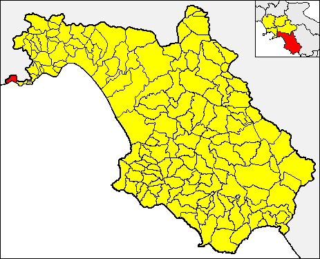 Locator map of the municipality of Positano (red) within the Province of Salerno